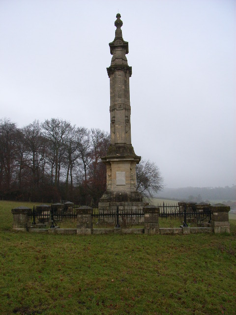 The Disraeli Monument, High Wycombe. Monument to the Disraeli family, whose seat was at nearby Hughenden.